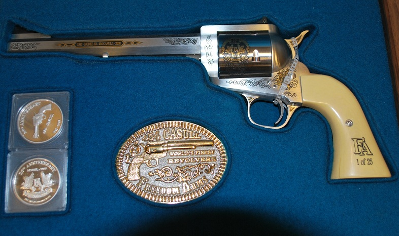 Freedom Arms 454 Casul revolver with ivory grips